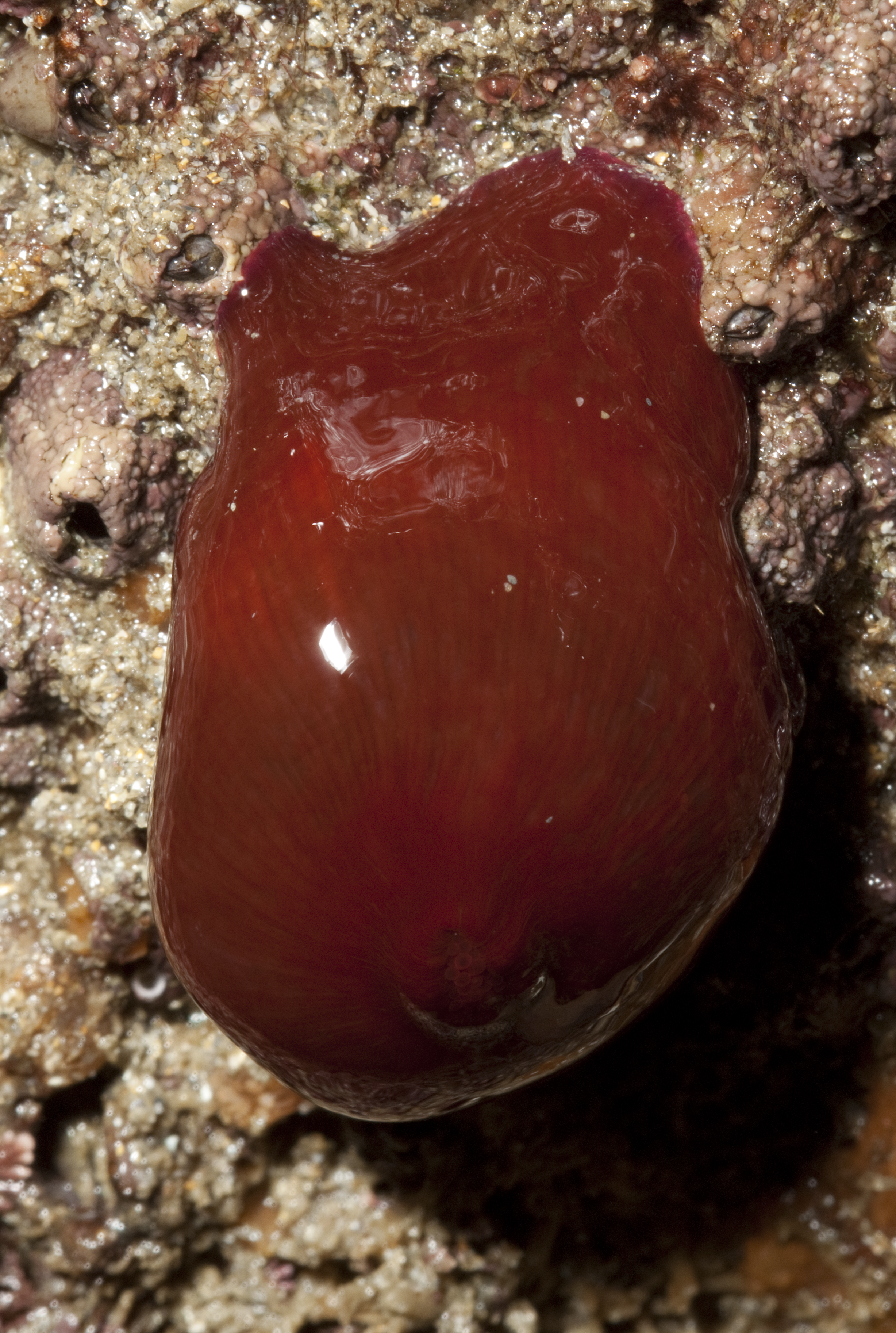 The Beadlet Sea Anemone, Actinia equina (Linnaeus, 1758) photographed near Padstow in South-west England.